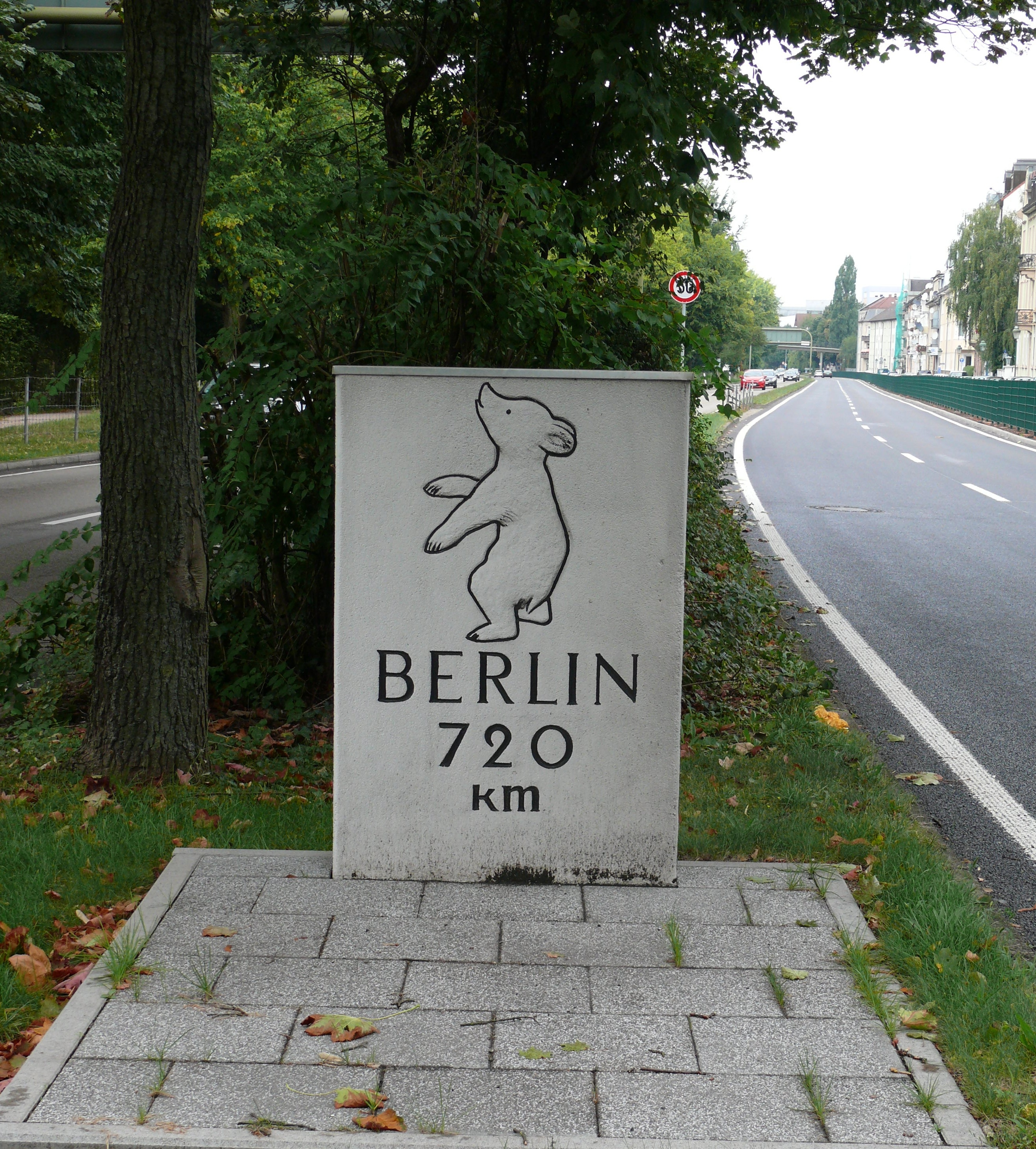 Milestone Baden-Baden Berlin 720 km